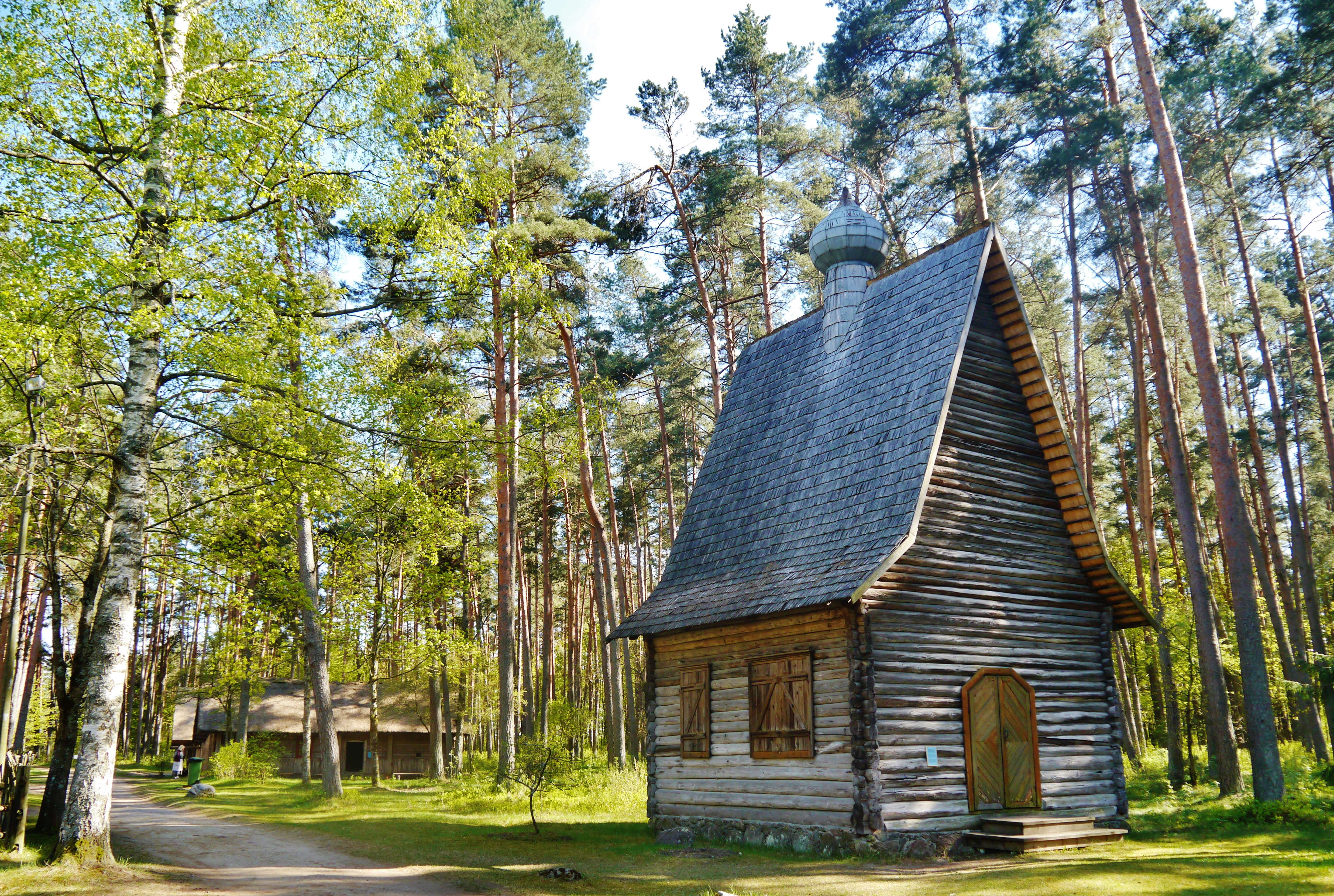 Church of St. George from the village Rogovka Rezeknensky district. Architect B. M. Shervinsky, 1930. Riga. Museum of Ethnography.